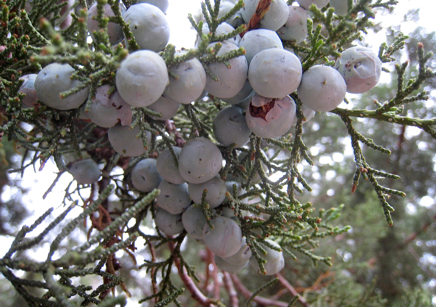 Juniperus deppeana cones. Near Strawberry, Gila County, Arizona.